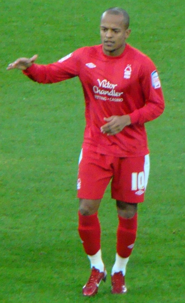 Robert Earnshaw cropped from 20/11/10 Cardiff V Nottingham Forest, Championship, Cardiff City Stadium, Cardiff, Wales